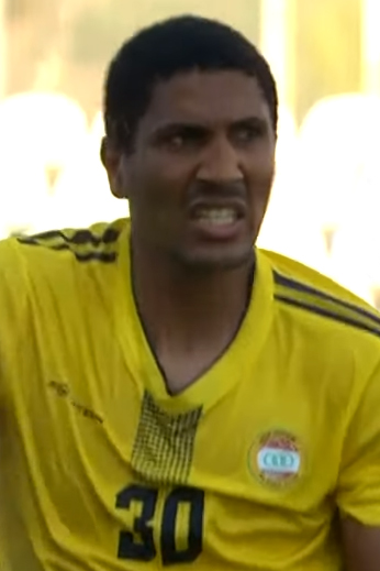 Tarek El Ali with Ahed against Ansar in the 2019 Lebanese Super Cup final